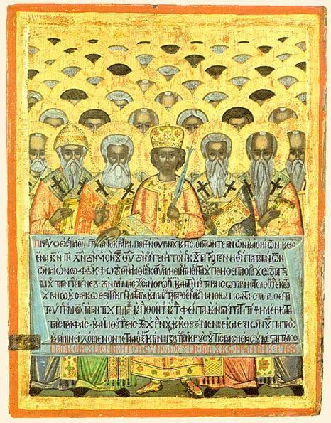 First Nicea Council Icon from New Skete, 1768